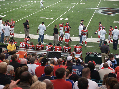 Had to get one picture of Michael Vick. His back was good enough.